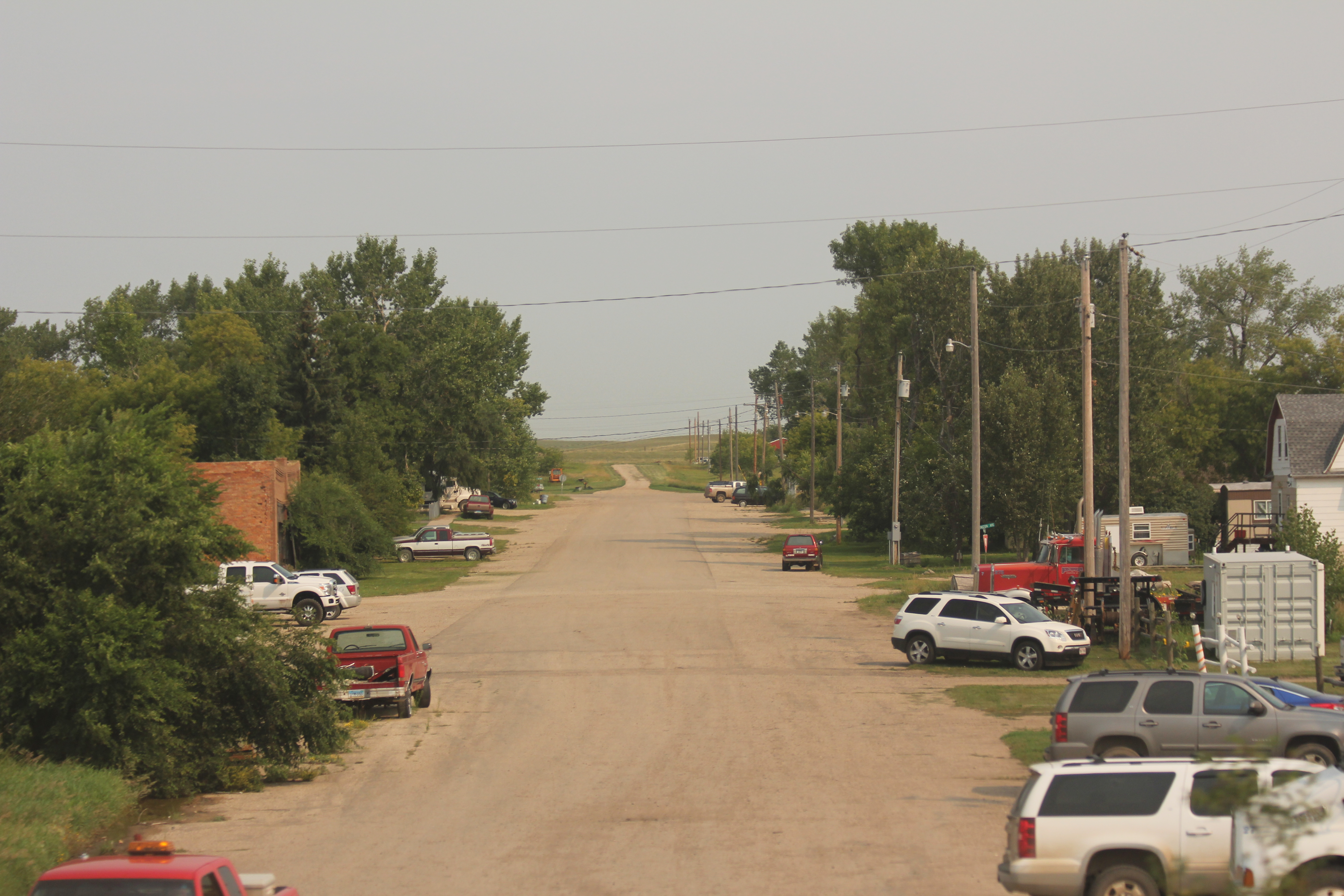 Looking north in Palermo, North Dakota.